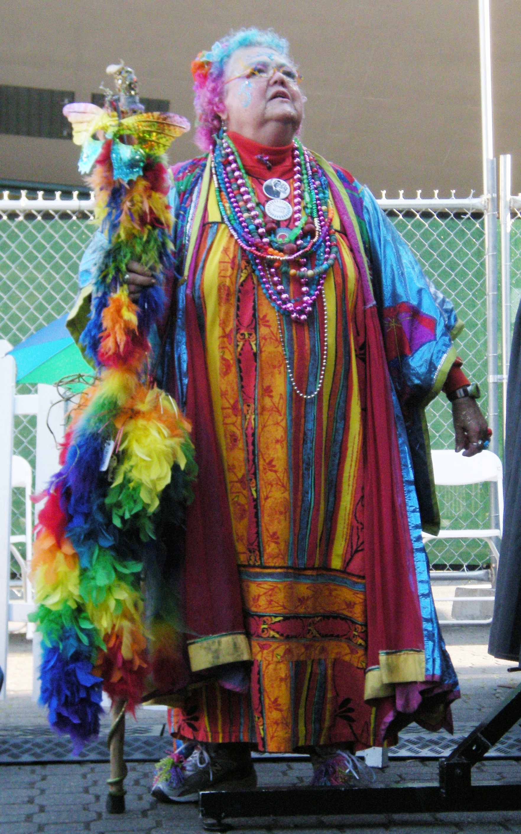 Seattle icon Dee Dee Rainbow in the audience at Bumbershoot 2008, Seattle Center, Seattle, Washington.